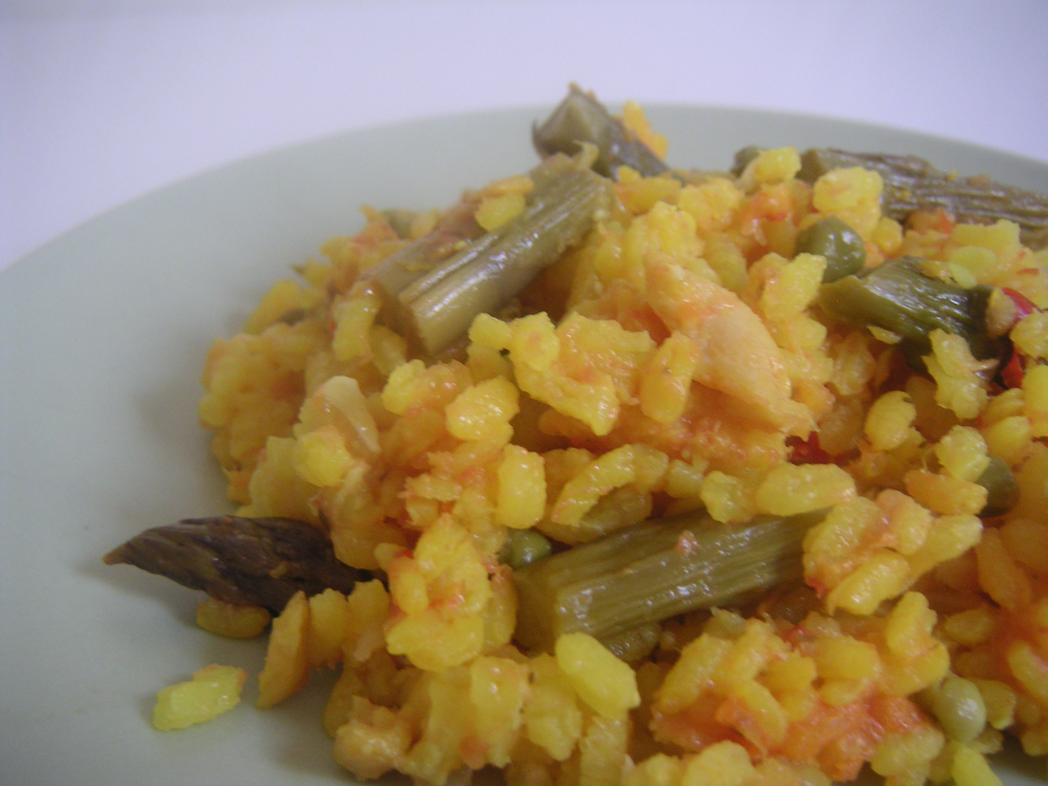 A typical Catalan rice dish, arròs de bacallà (cod rice). It is eaten in all the Catalan Countries.